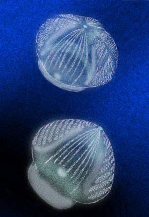 Reconstruction of Fasciculus vesanus, a Cambrian ctenophore from the Burgess Shale of British Columbia